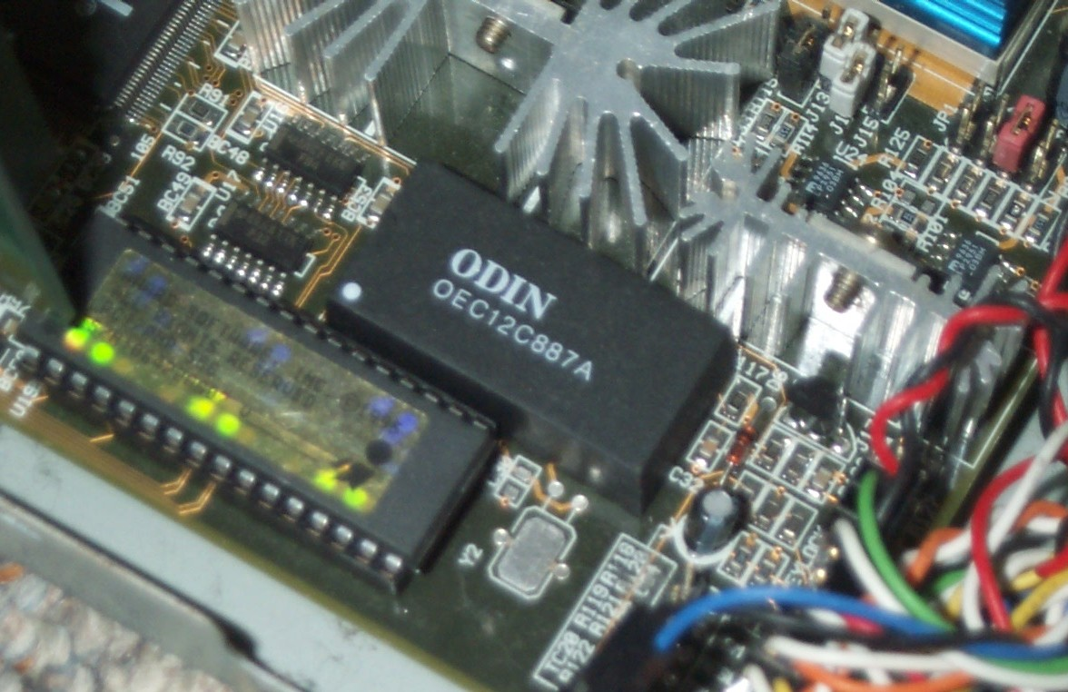 Corner of an AT motherboard showing RTC (labeled ODIN) and Award BIOS ROM. One of my old computers.